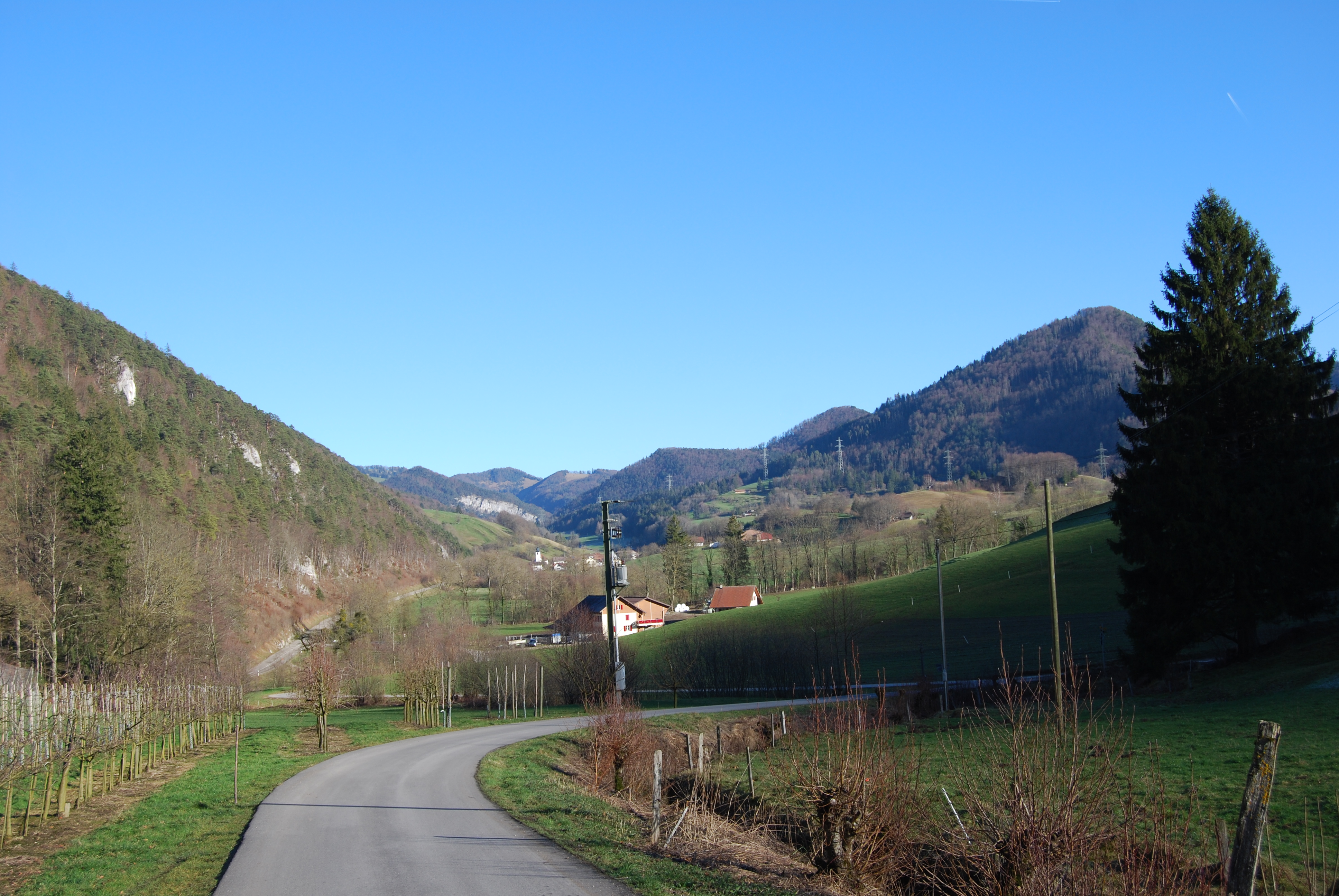 Vermes, canton of Jura, Switzerland